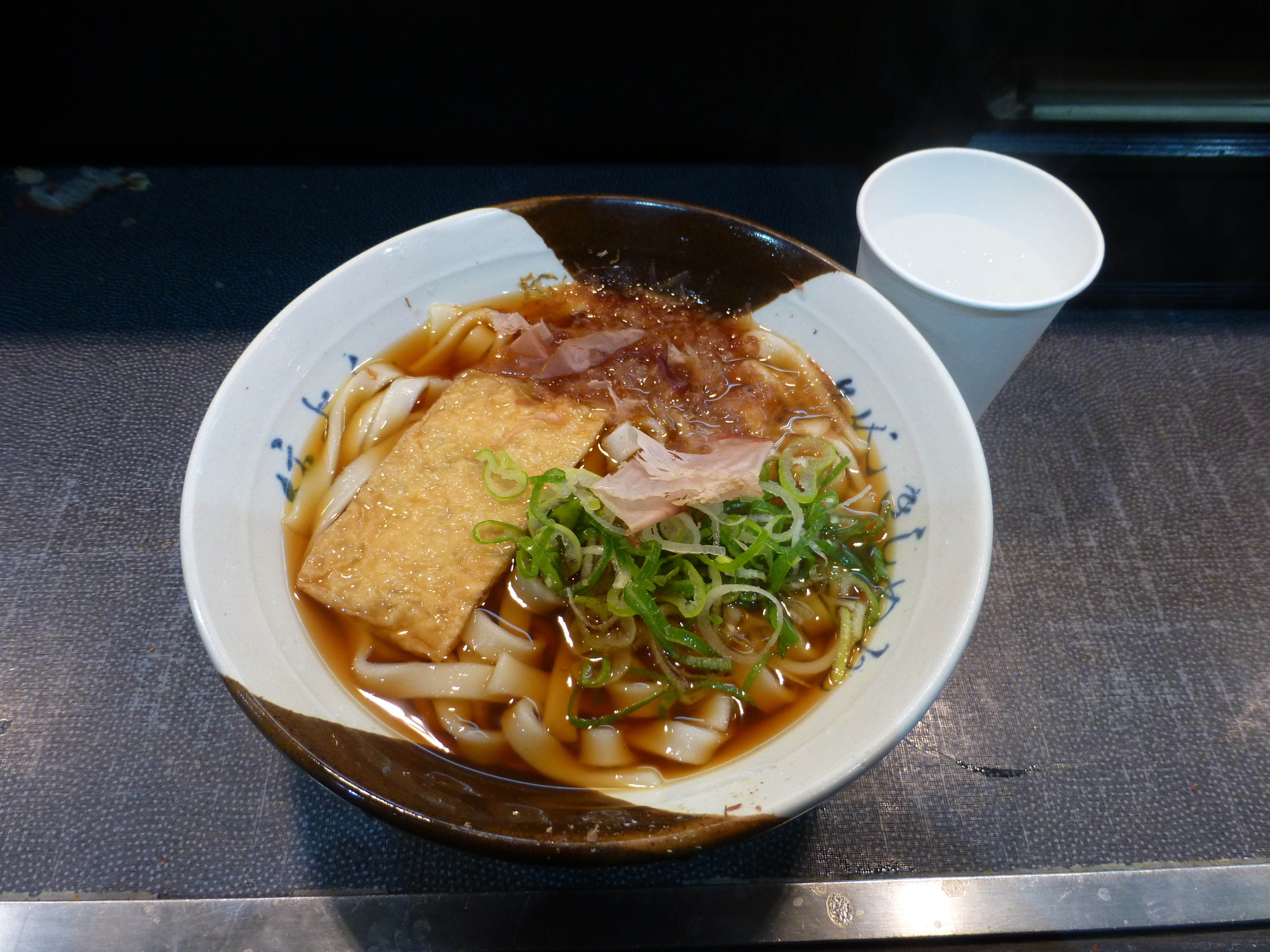 Kishimen in Nagoya station.